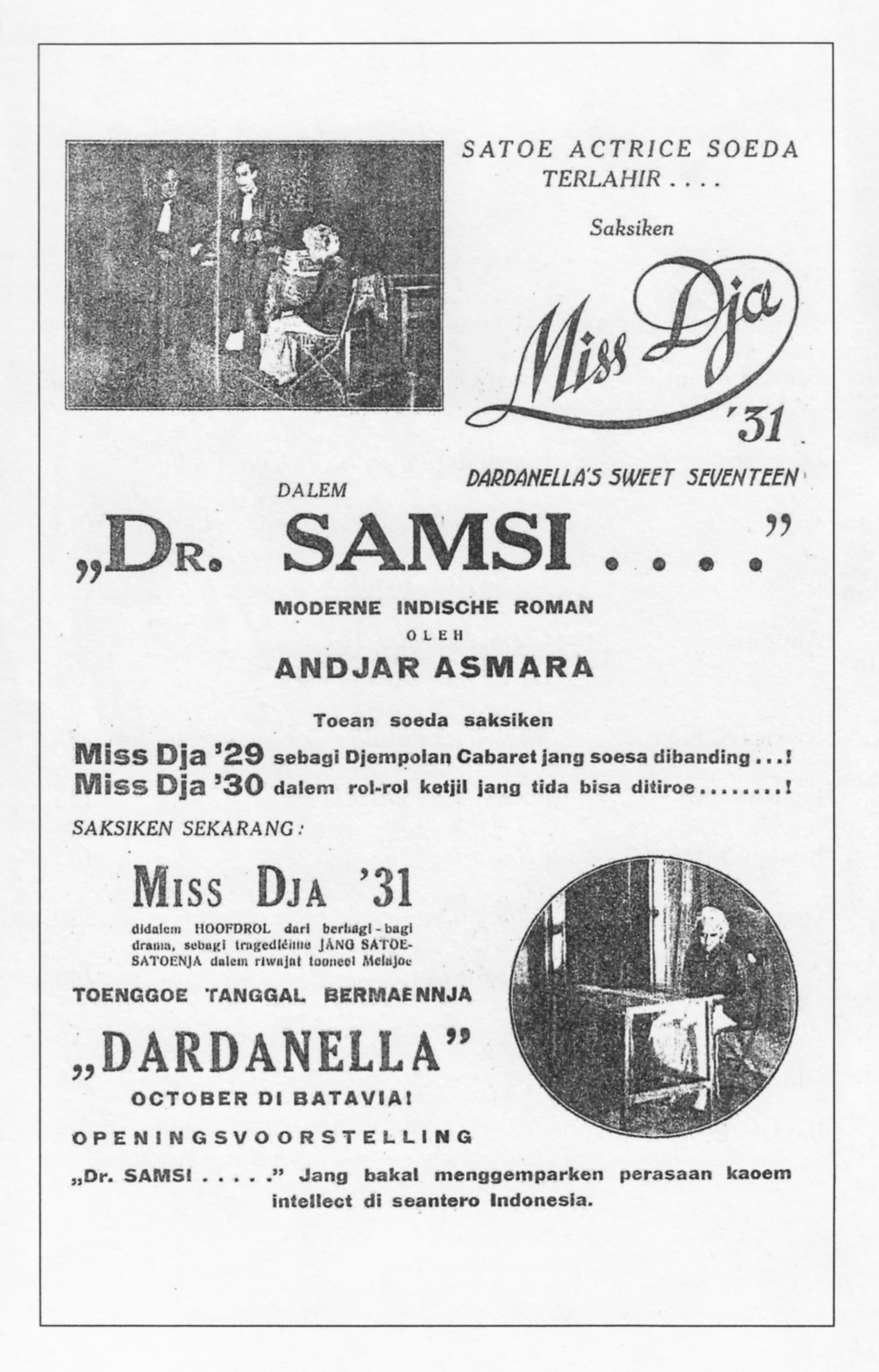 Advertisement for the grand premiere of Andjar Asmara's Dr Samsi, as performed by Dardanella.